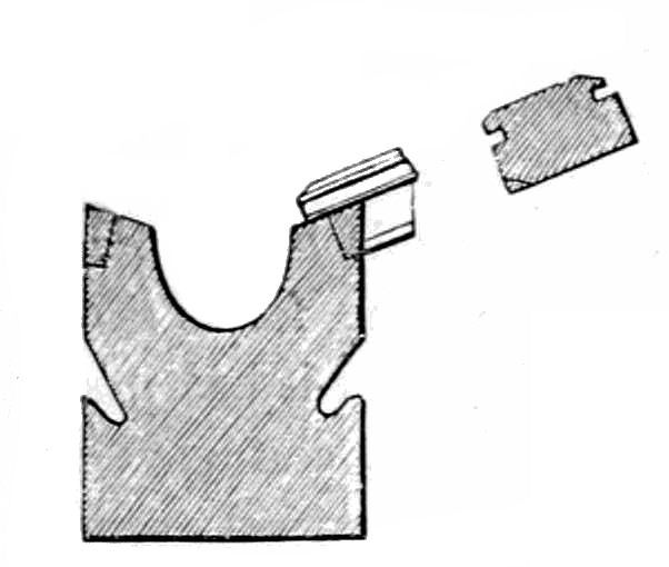 Section of the Paxton's gutter on the Crystal Palace, with the strong sash-bar (cross-section).